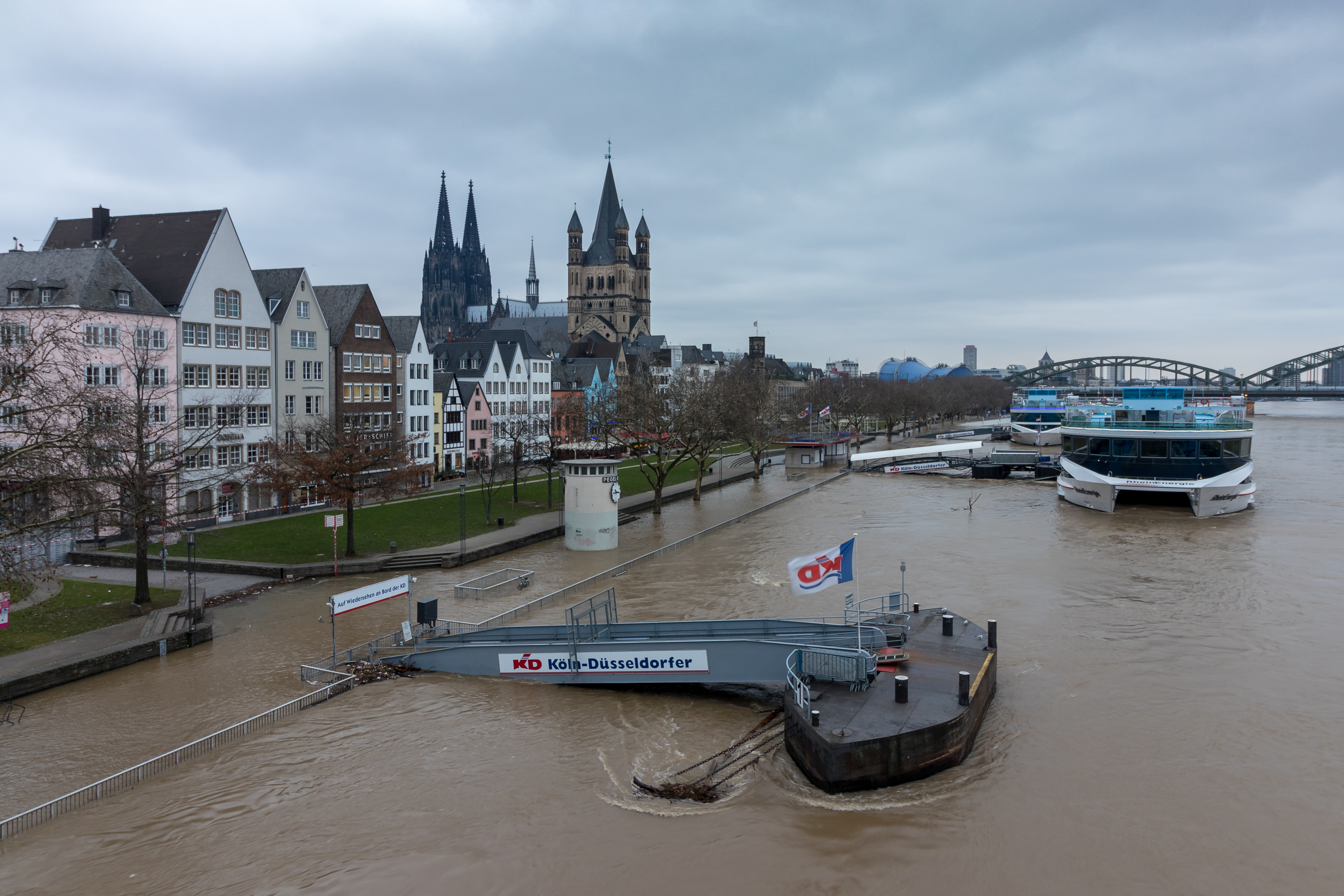 January 8, 2018 in Germany: 2018 floods in Cologne after storm Eleanor with stream gauge of river Rhine. Mobile flood protection on river bank to protect the lower parts of old town. In background: Cologne Cathedral (German: Kölner Dom) and railway bridge.